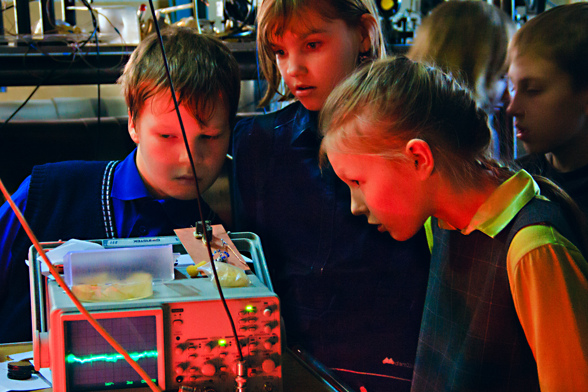 Students on an excursion at the Institute of Laser Physics.